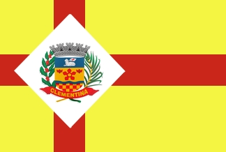 Flag of Clementina - SP - Brasil.